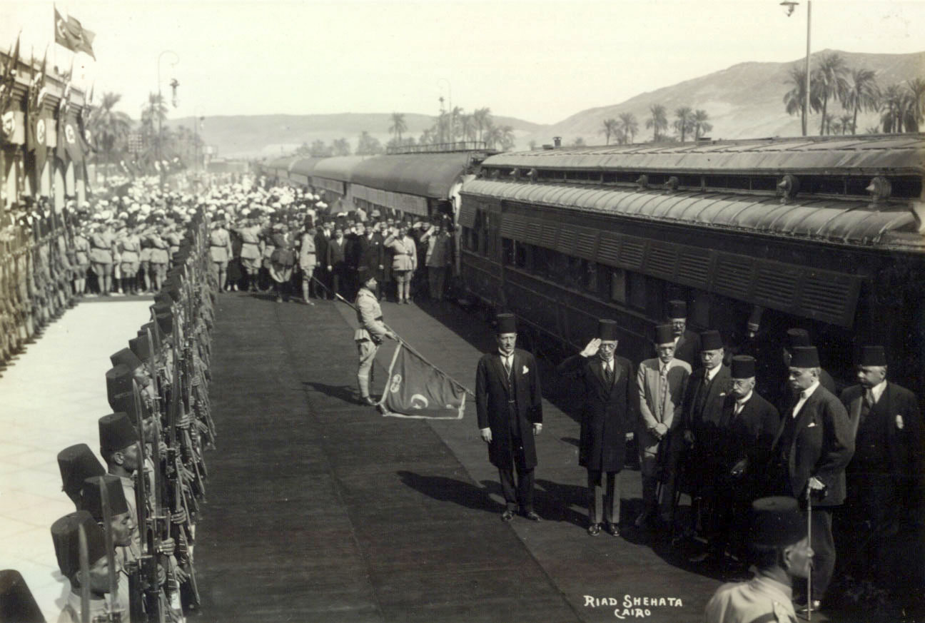 Adli Yakn Pasha on the right and behind him Mohamed Naguib Al Gharabli, Hussein Rushdi Pasha, Tharwat Pasha, Fathallah Barakat Pasha, Murkus Hanna Pasha, Digui Bek the director of Aswan and Mahmoud Shakir Mohamed Bek Assistant of the Minister of Communications.